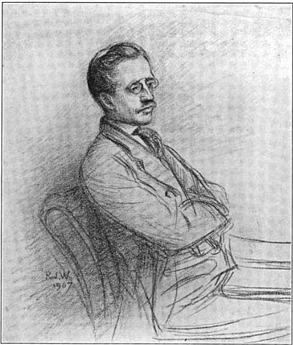 Sketch of Frank Weitenkampf, appearing in the September 1908 issue of The Bookman (US), p. 10